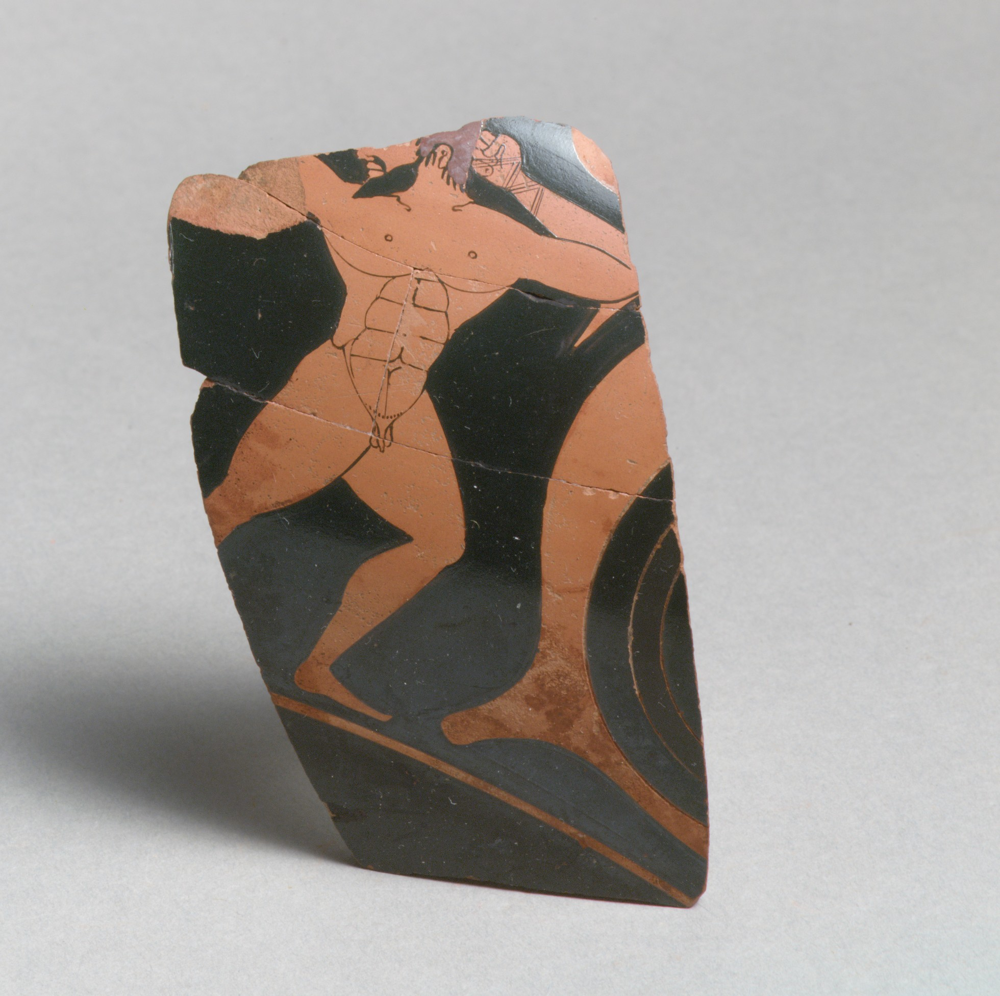 Boxer. The original decoration would have shown the boxer between a pair of eyes.